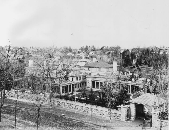 Image of the Edward F Searles estate unfinished, Methuen, Massachusetts